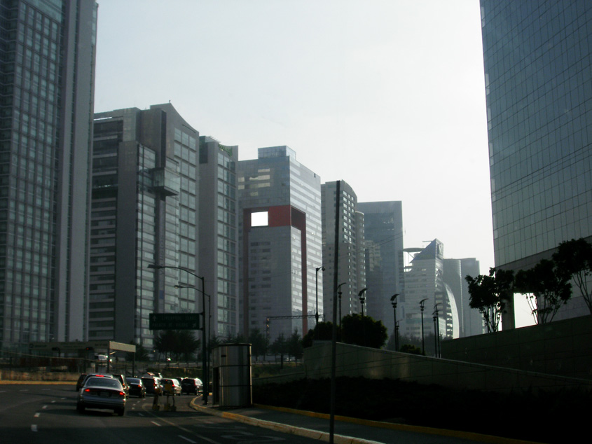 Santa Fe.